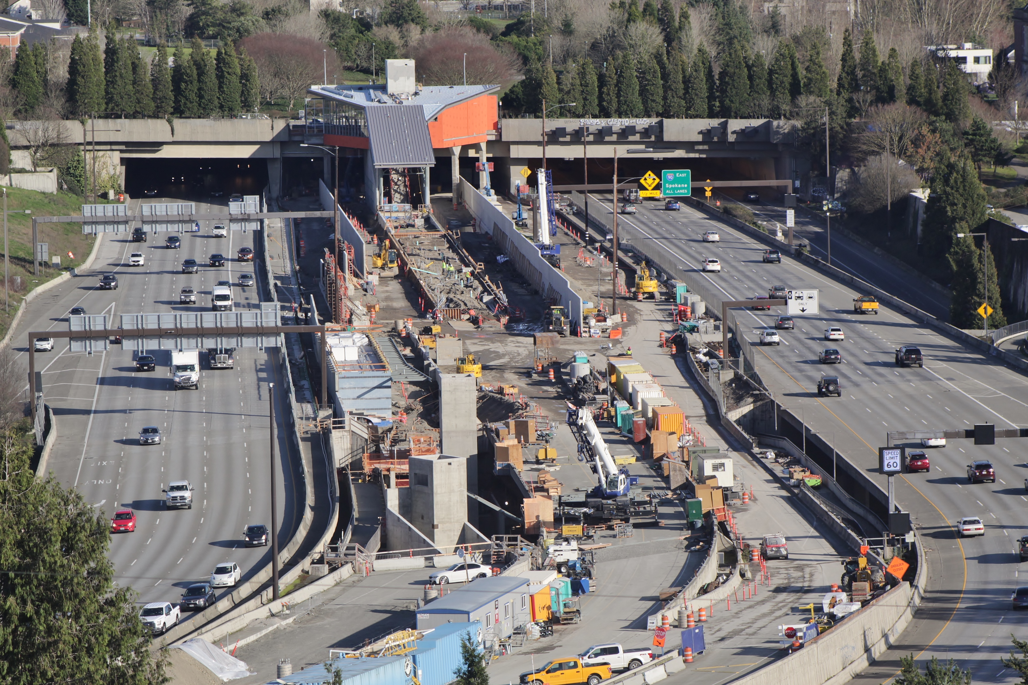 The Judkins Park light rail station in Seattle, Washington, seen from the east side of Beacon Hill.